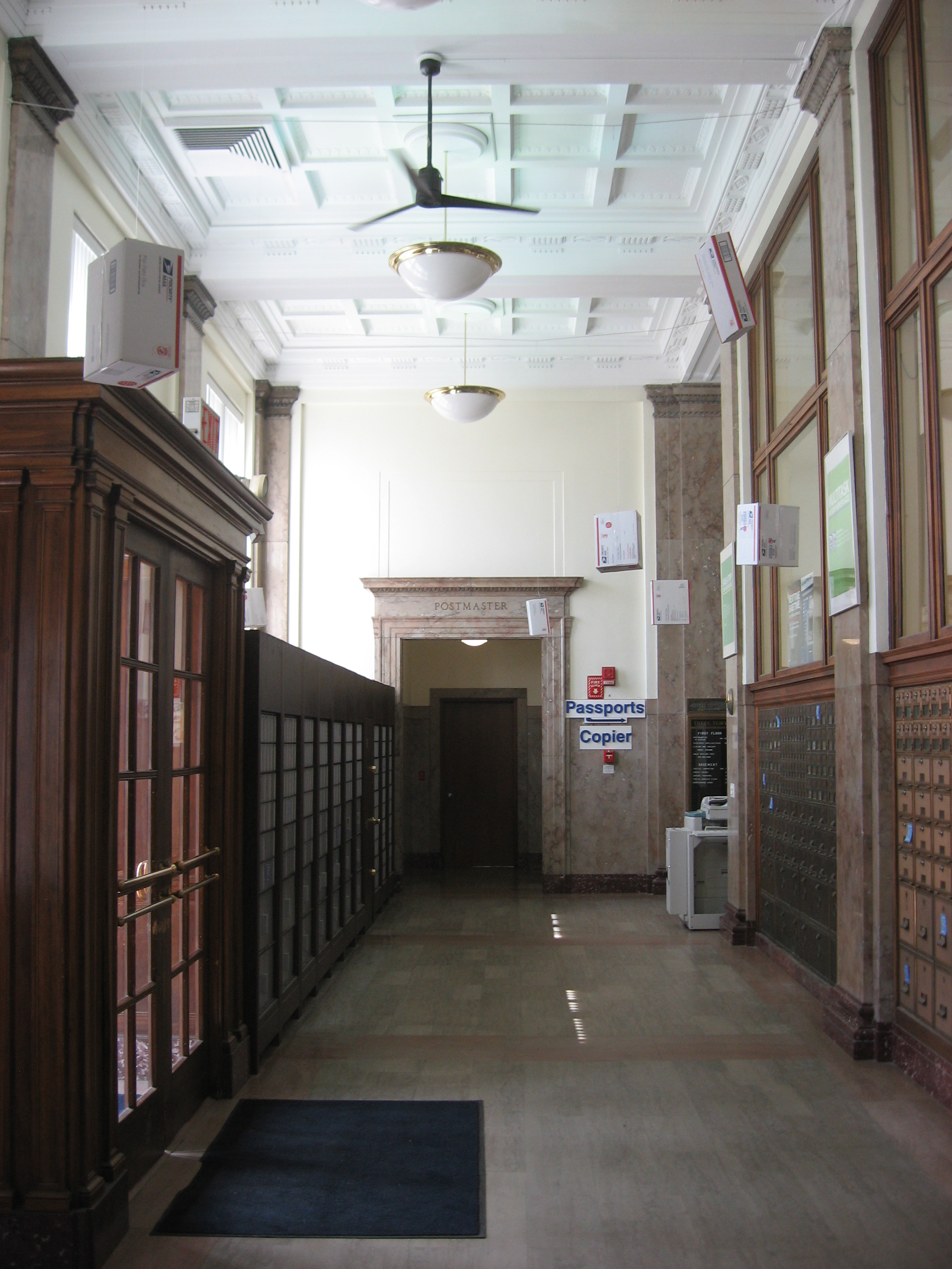 Rows of post office boxes inside the U.S. Post Office, located at 326 W. High Street in Lima, Ohio, United States. Built in 1930, it is listed on the National Register of Historic Places.